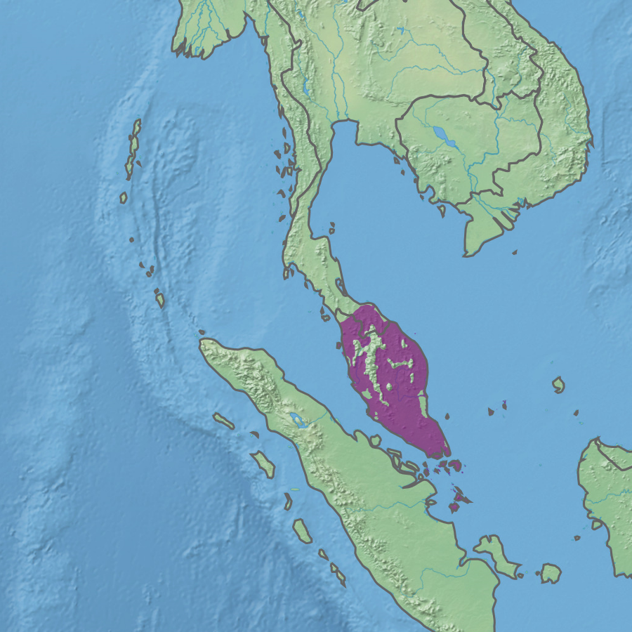 Ecoregion IM0146 - Peninsular Malaysian rain forests (in purple)